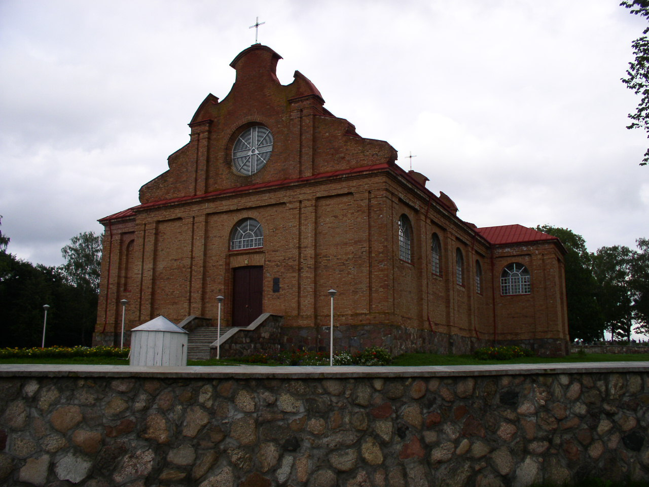 Church of Assumption of the Holy Virgin. Naliboki, Belarus.